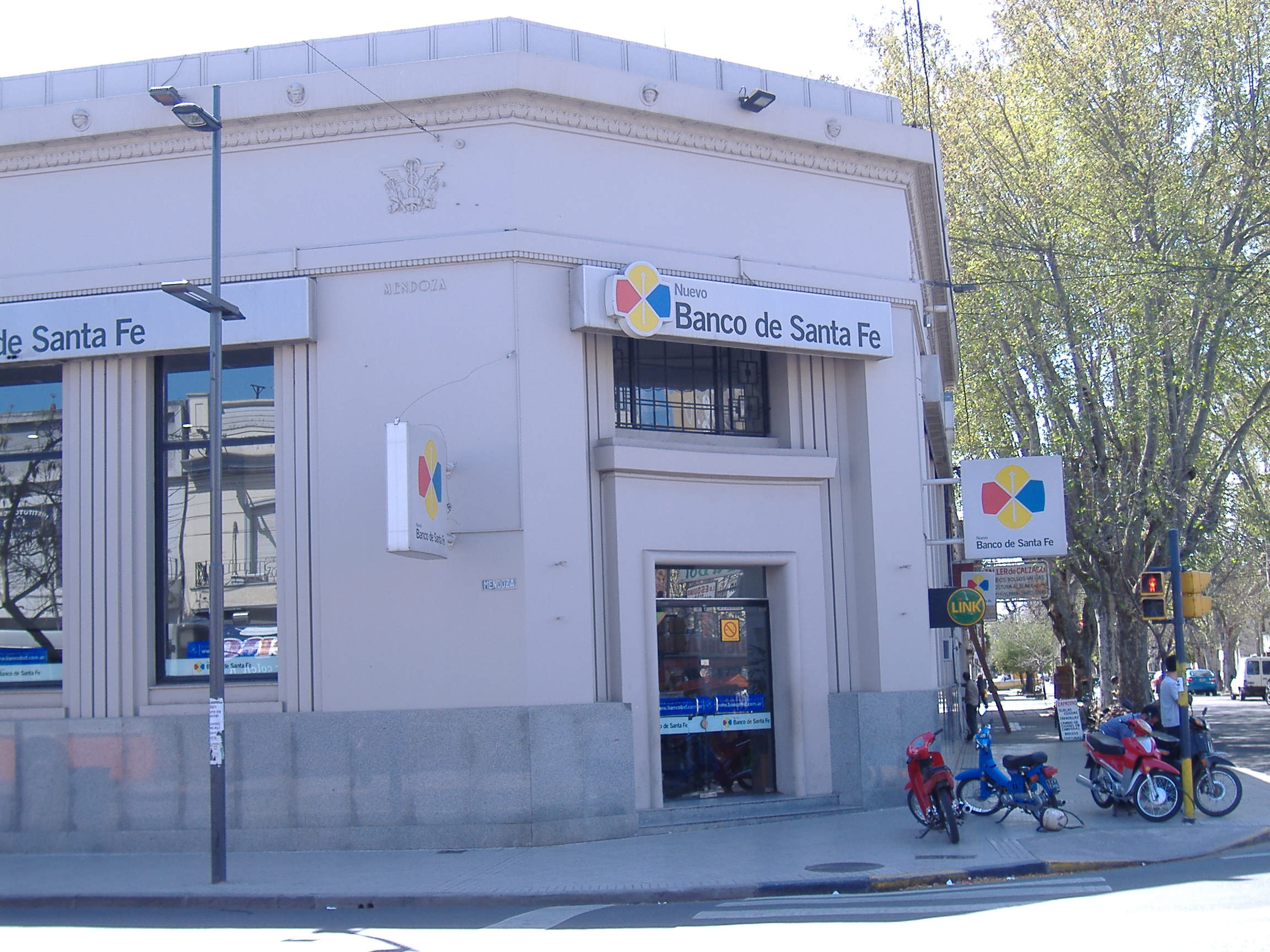 Bank of Santa Fe, in Rosario, Santa Fe Province, Argentina (branch located on 4002 Mendoza St.).